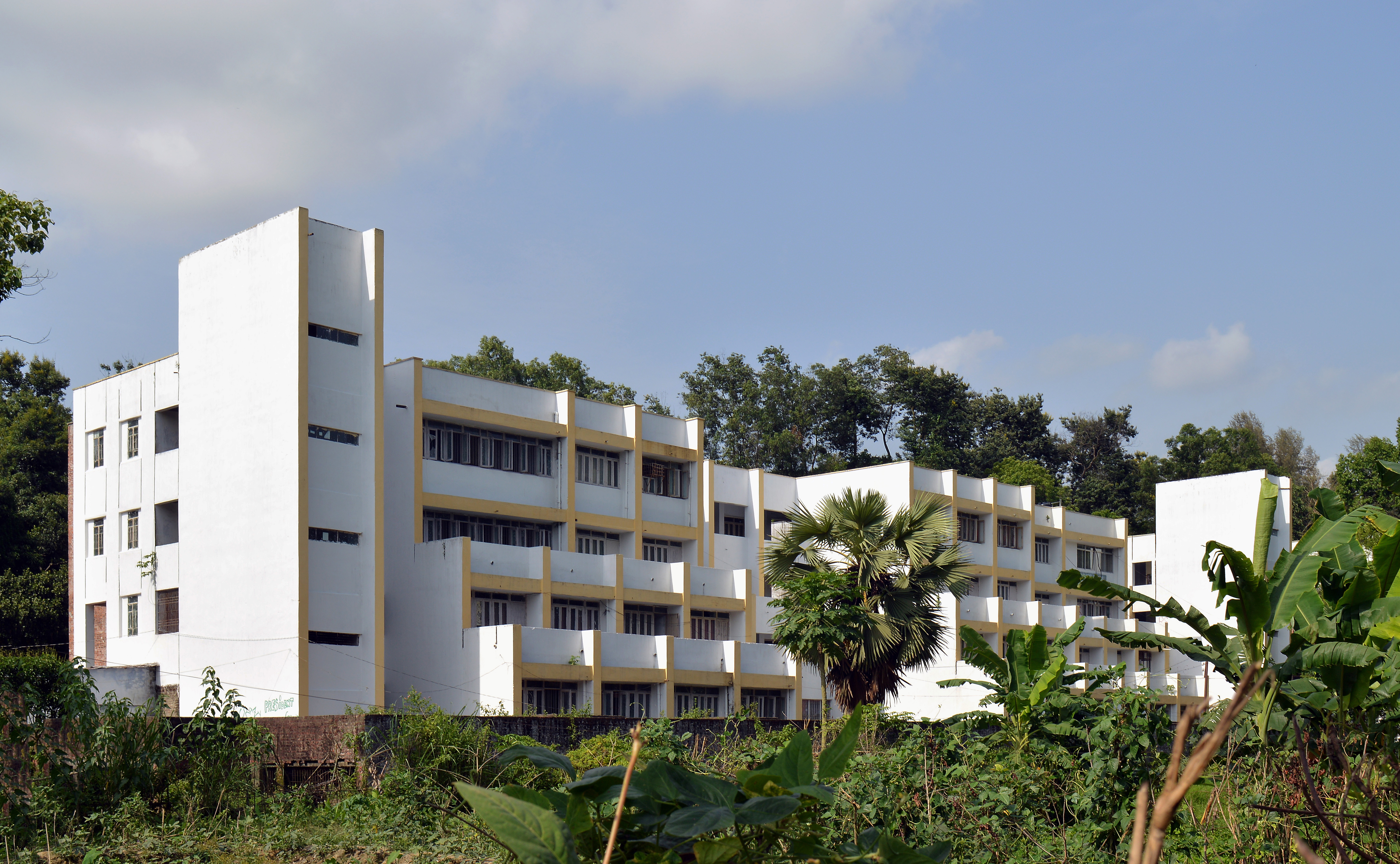 Faculty of Arts and Humanities at University of Chittagong (western side view)